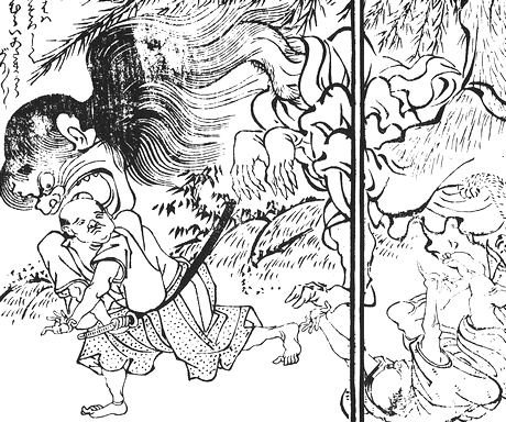 Ama-nyūdō from the Bakemonochakutōchō